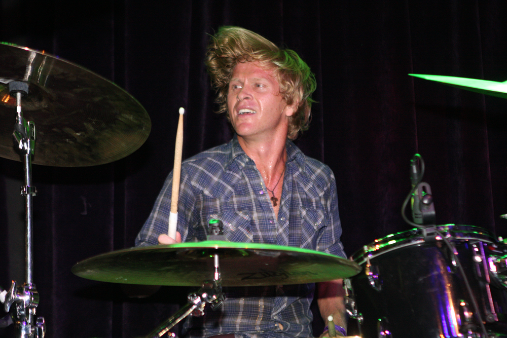 The Star Opens Marquee Nightclub; Entertainment Rather Than Casino Focus The Star tonight unveiled their latest weapon in the Australian casinos wars - all part of the battle for the entertainment dollar. The pitch reads... Internationally acclaimed nightclub operator Tao Group is set to bring a monumental change to Sydney's nightlife landscape with the opening of Marquee - The Star Sydney in late March 2012. Marquee - The Star Sydney will be located on the entire top tier of The Star's new Pirrama Road harbourside entrance, commanding expansive views of Sydney Harbour and the city skyline. With nearly 20,000 square feet of floor space, the venue is designed to house three distinct spaces within the one venue to cater for different tastes and moods. The Main Room will feature a 30-foot projection stage with an LED DJ booth and two dance floors. In contrast, a stylish Library style room will offer an intimate lounge experience, accentuated by a working fireplace. Venturing further into the venue, club-goers will come across the Boom Box, with a separate DJ, state-of-the-art sound system and outdoor patio. There is also a chill-out area with unparalleled views of the Sydney skyline and a unisex "bathroom lounge". Furnished with dynamic and unique interiors, the venue will have a retail store and separate VIP entrance for quick entry from street level. Perth based band Gyroscope played: Pain 1981 Beware Wolf Still Taste Blood Dream BS Scream Doctor Doctor Live Without You Sotpik Midnight Express Baby Weapon Enemy Friend These Days Safe Forever Take This For Granted Fast Girl Snakeskin We would like to say a big thank you to everyone who made today a success, and we'll see you back at The Star again soon. Websites Marquee Sydney The Star Marquee (The Star) Echo Entertainment Gyroscope Eva Rinaldi Photography Flickr Eva Rinaldi Photography Music News Australia